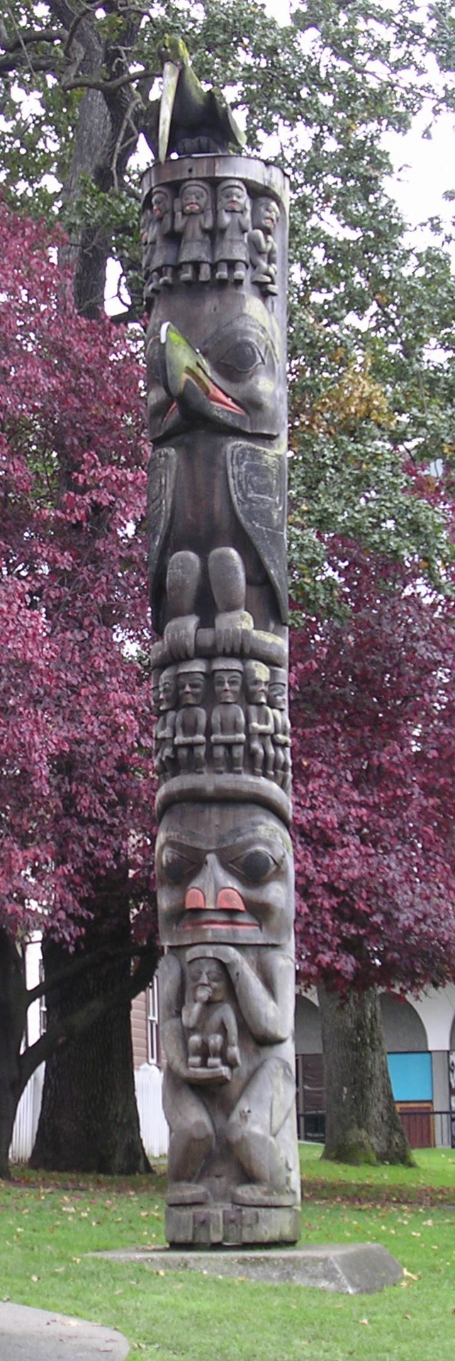 A totem pole located outside the Royal BC Museum in Victoria British Columbia. Replica of a pole from Gitanyow/Kitwancool, called Skim-sim and Will-a-daugh, which belonged to Chief Whiha (Wee-kha, Ernest Smith) chief of the World (Gilt-Winth) clan. Carved by Mungo Martin, Henry Hunt and Tony Hunt in 1960.